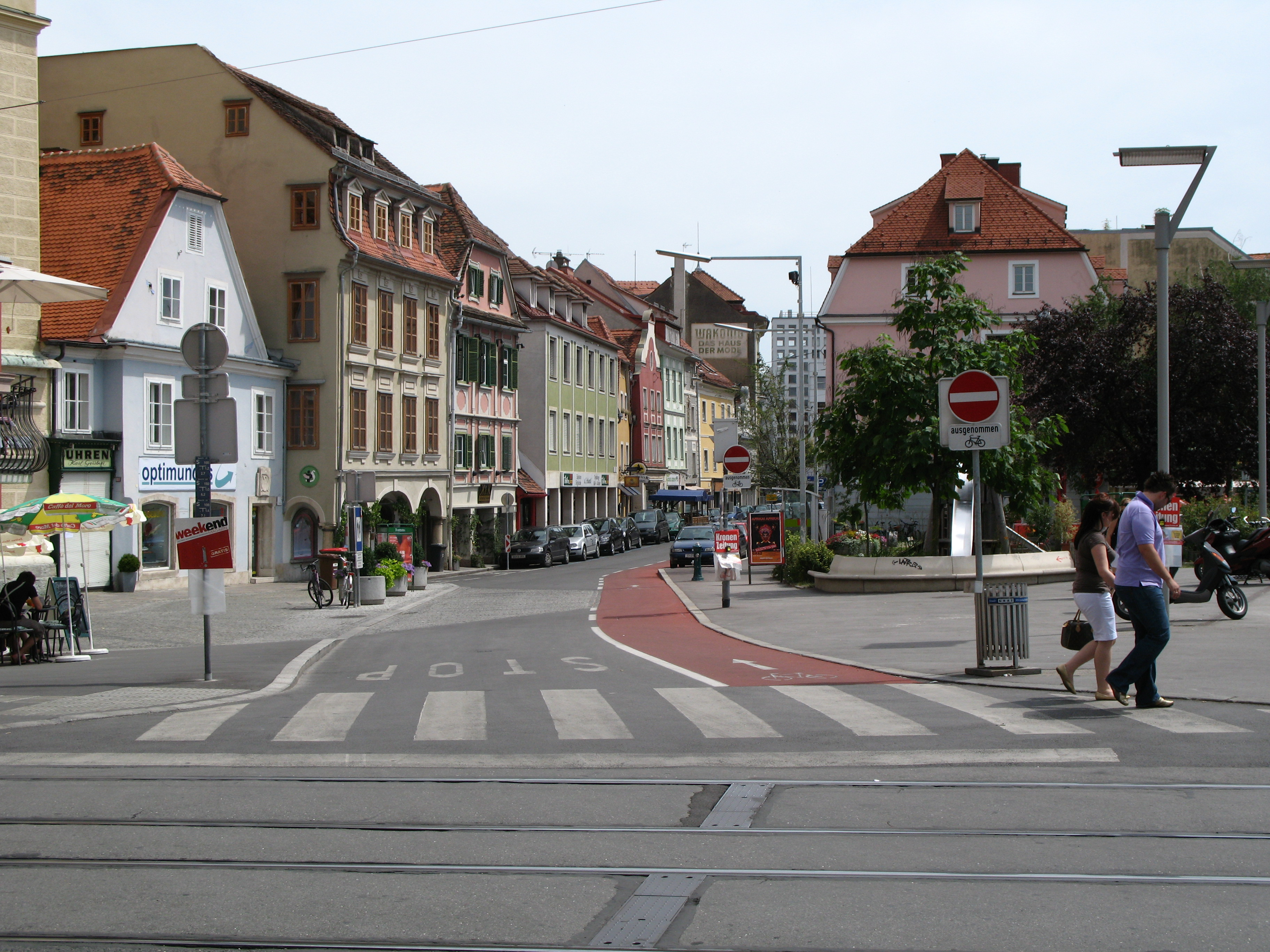 Graz, Austria